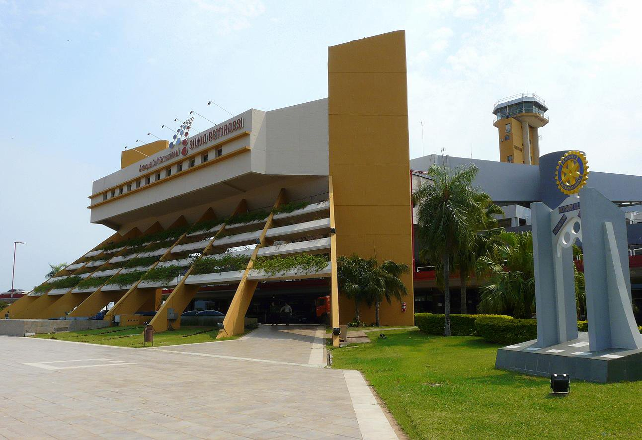 International airport of Asunción city, Paraguay